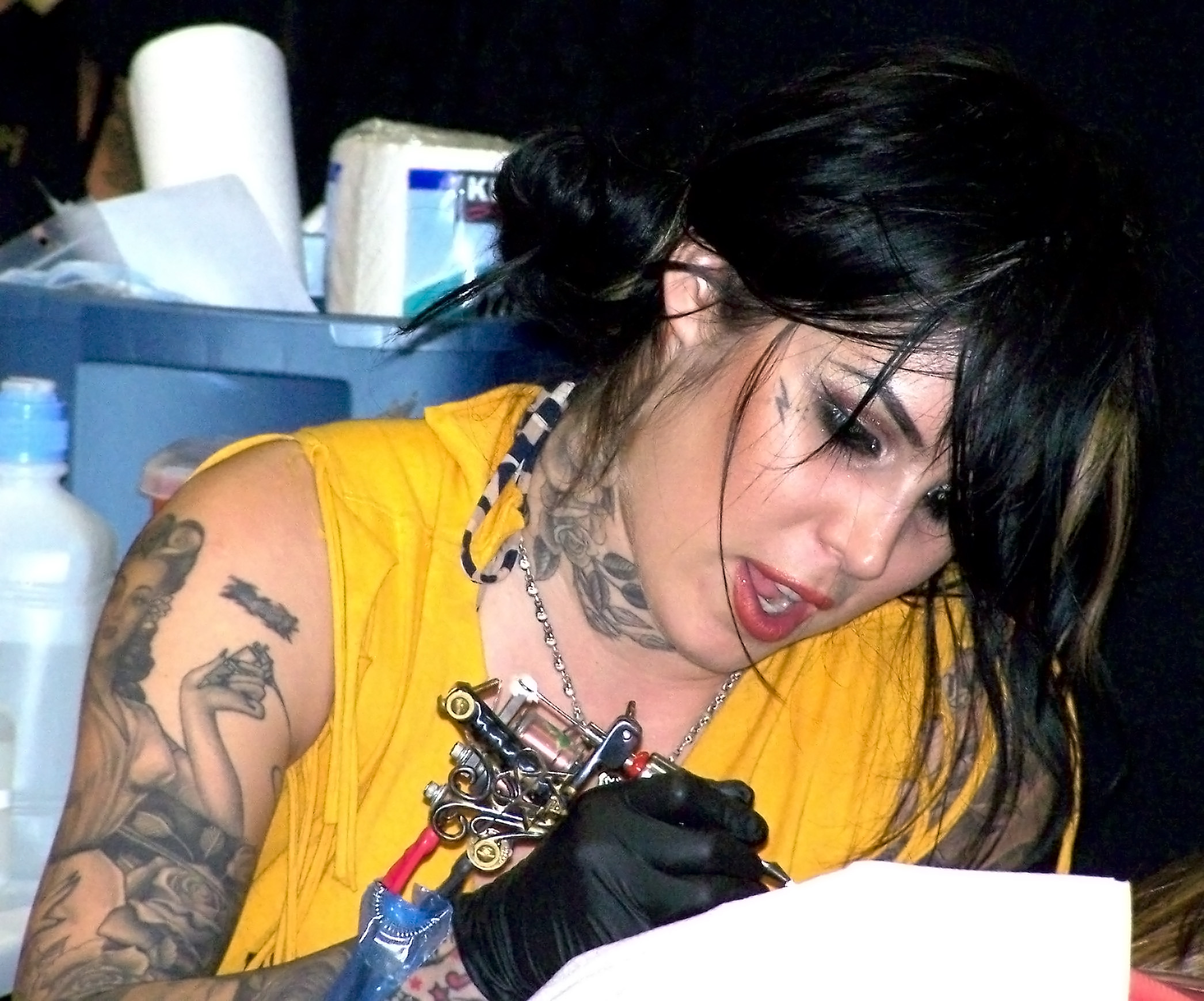 Kat Von D, of LA Ink, at the 2007 Calgary Tattoo & Arts Festival held in the Calgary Roundup Centre, 1410 Olympic Way SE Calgary, Alberta, Canada.